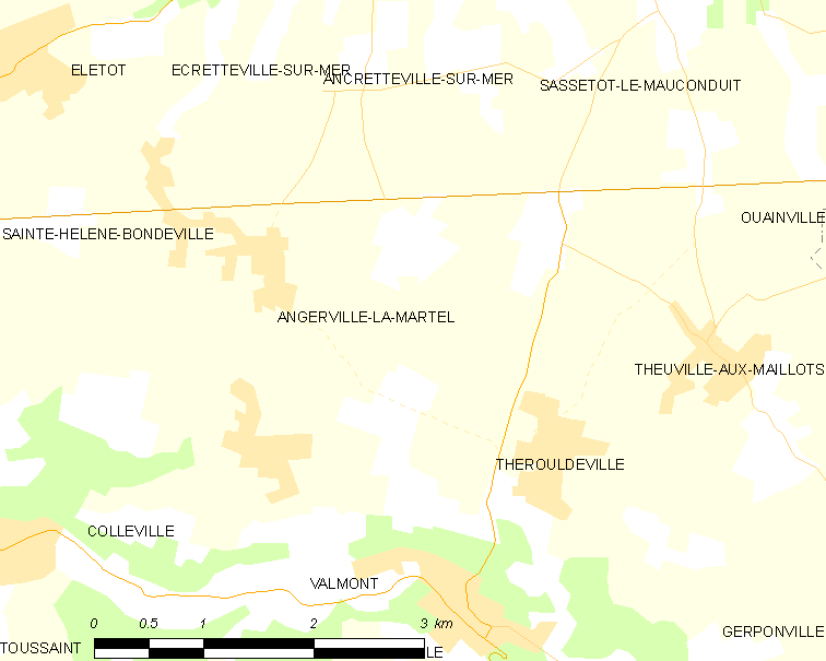 Map of French municipality Angerville-la-Martel